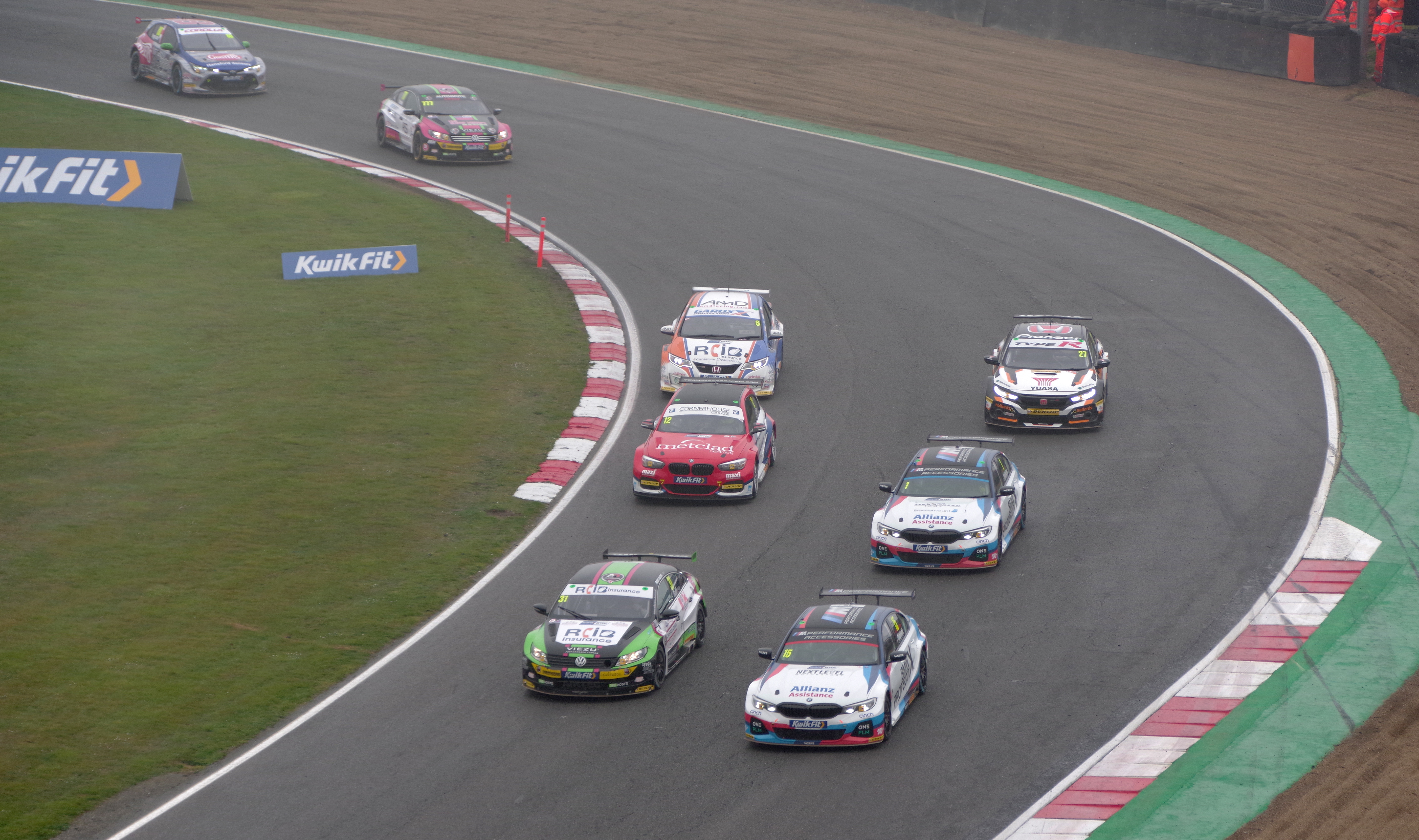 2019 British Touring Car Championship, Brands Hatch.